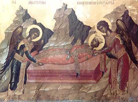 Saint Catherine and angels. Orthodox icon. 16th century.